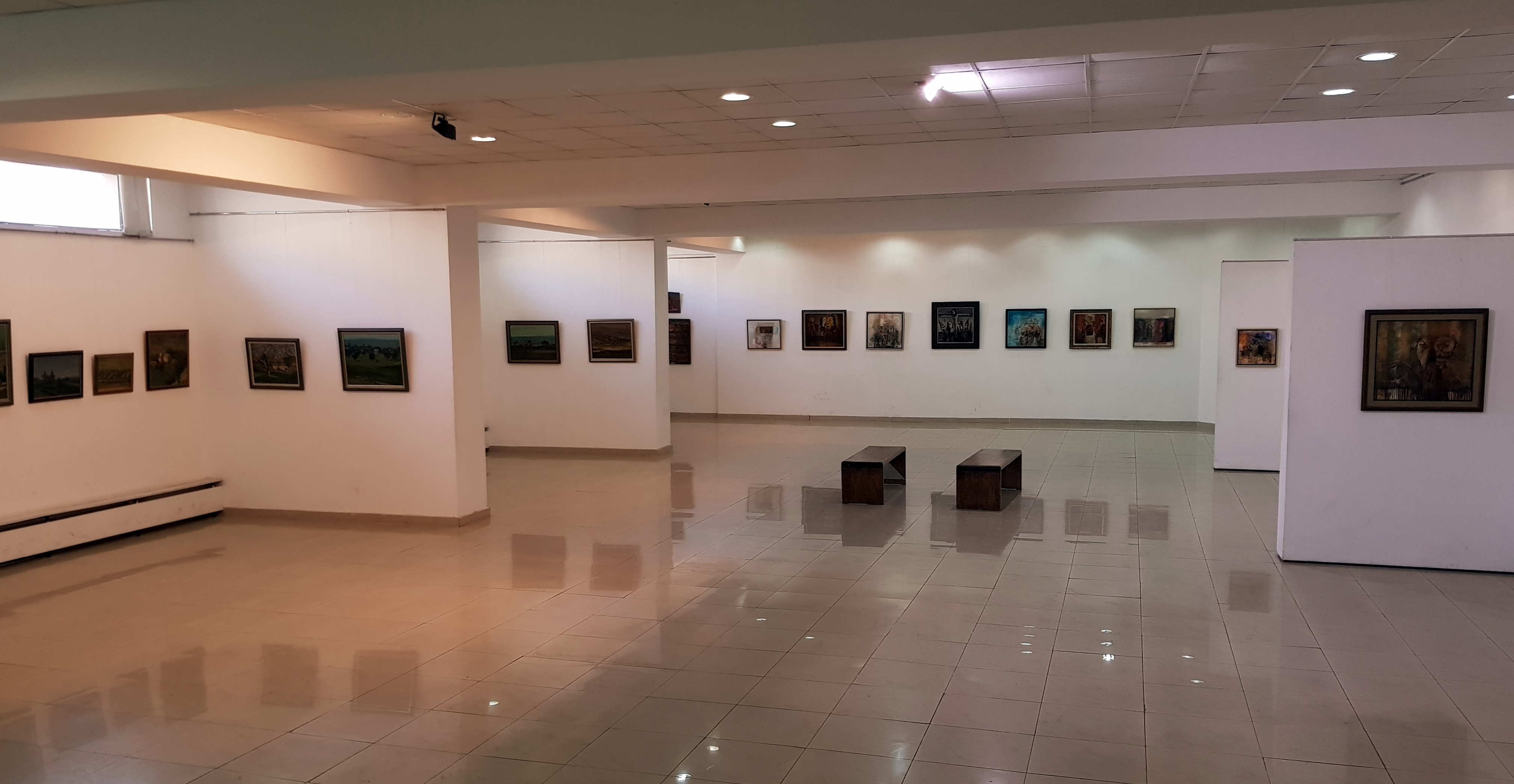 Armen Vahramyan's solo exhibition devoted to 150 th anniversary of Hovhannes Toumanyan at Artists Union of Armenia